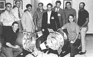 At left, Working Group 3 members pose with the American two-fifths-scale model of the ASTP docking system. Left to right: A. Sementovsky, E. N. Harrin, V. I. Bagno, D. C Wade, V. S. Syromyatnikov, Ye. G. Bobrov, W. K. Creasy, and L. G. Williams. Kneeling by the docking hardware: K. A. Bloom (left) and R. D. White.